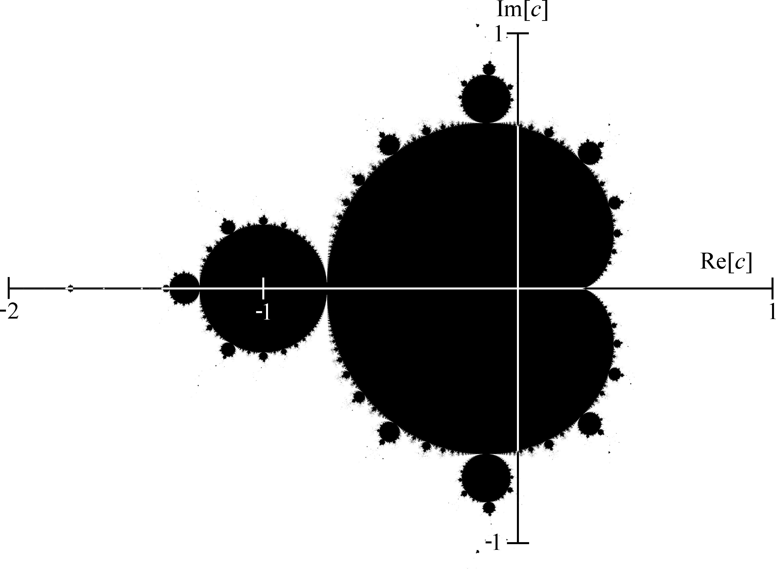 Hi-resolution Mandelbrot set with axes